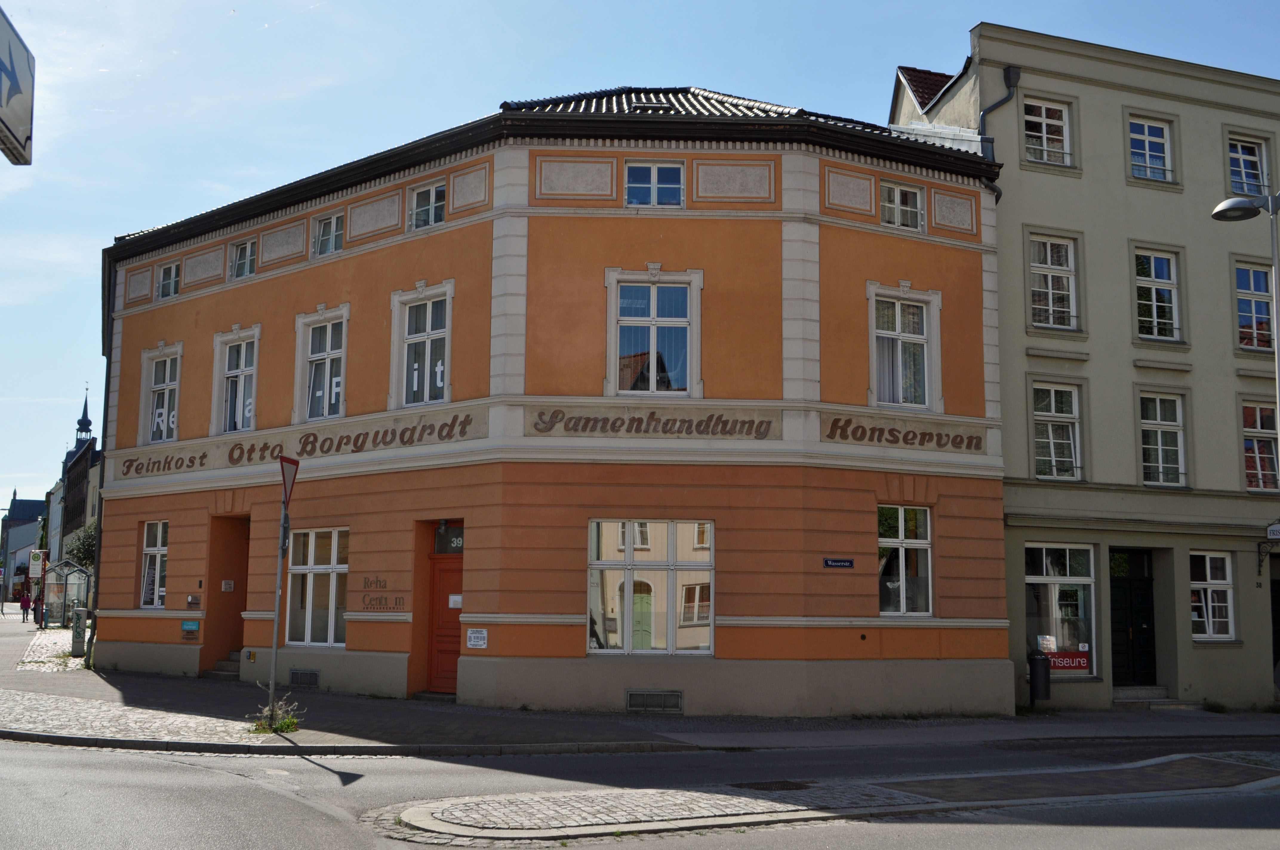 Stralsund, Wasserstraße 39, Ecke Frankenwall This is a photograph of an architectural monument.